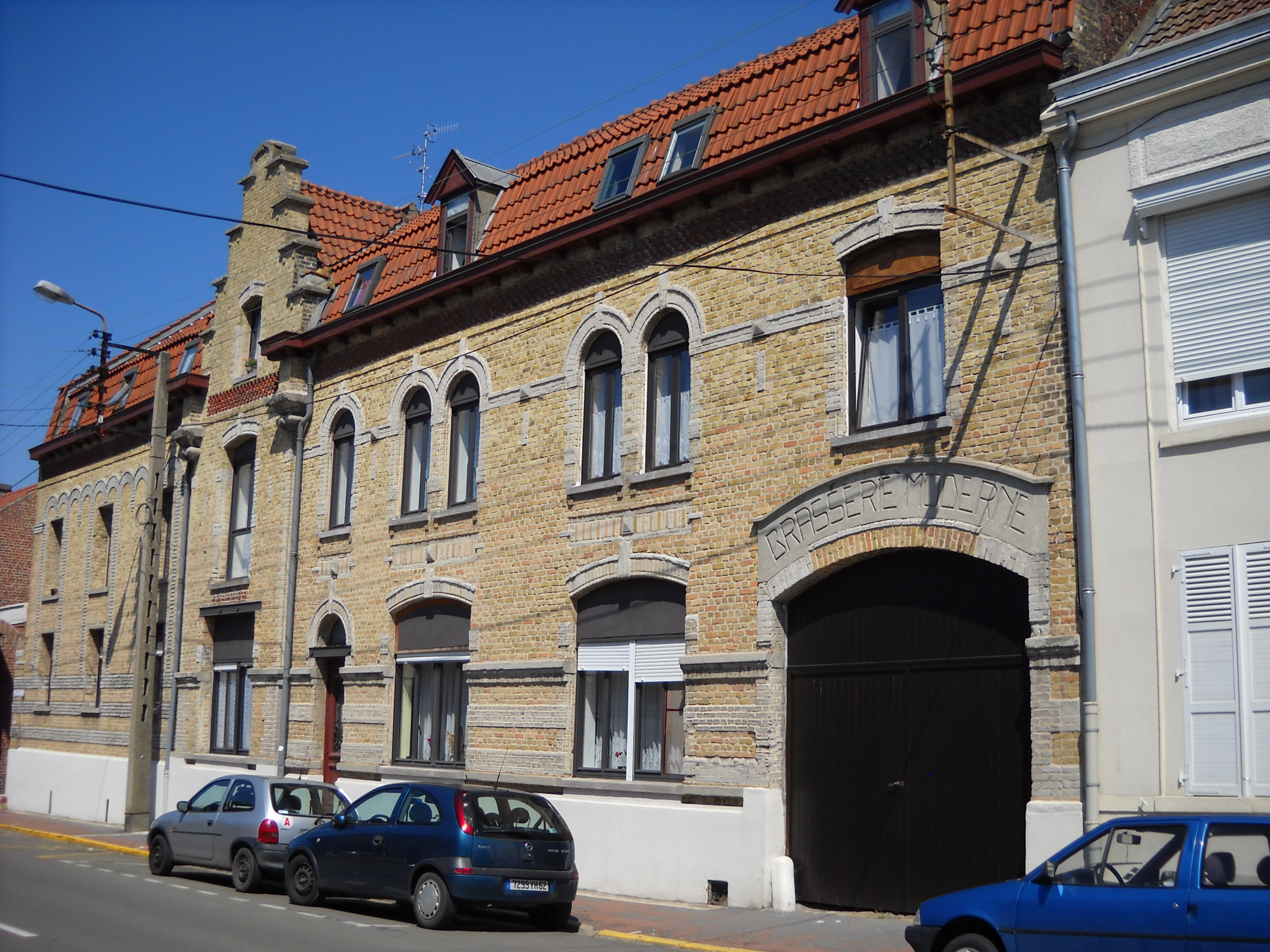 The "Modern Brewery, in Carvin, Pas-de-Calais, France.